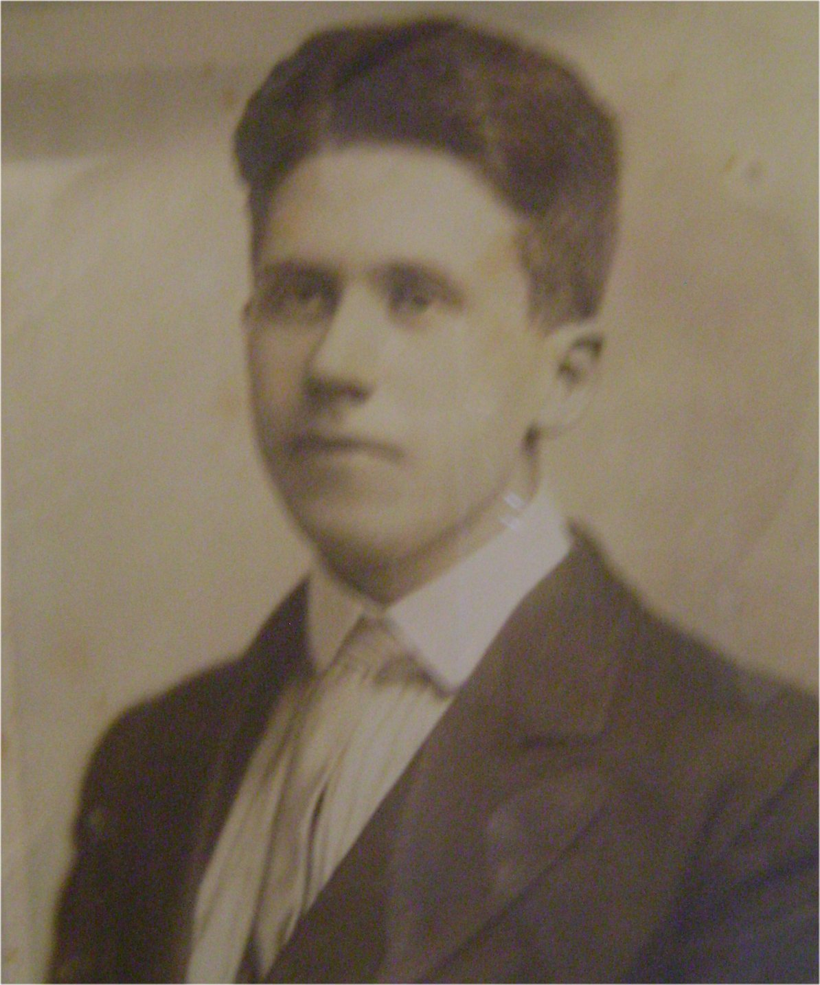 Swift Lathers 1910